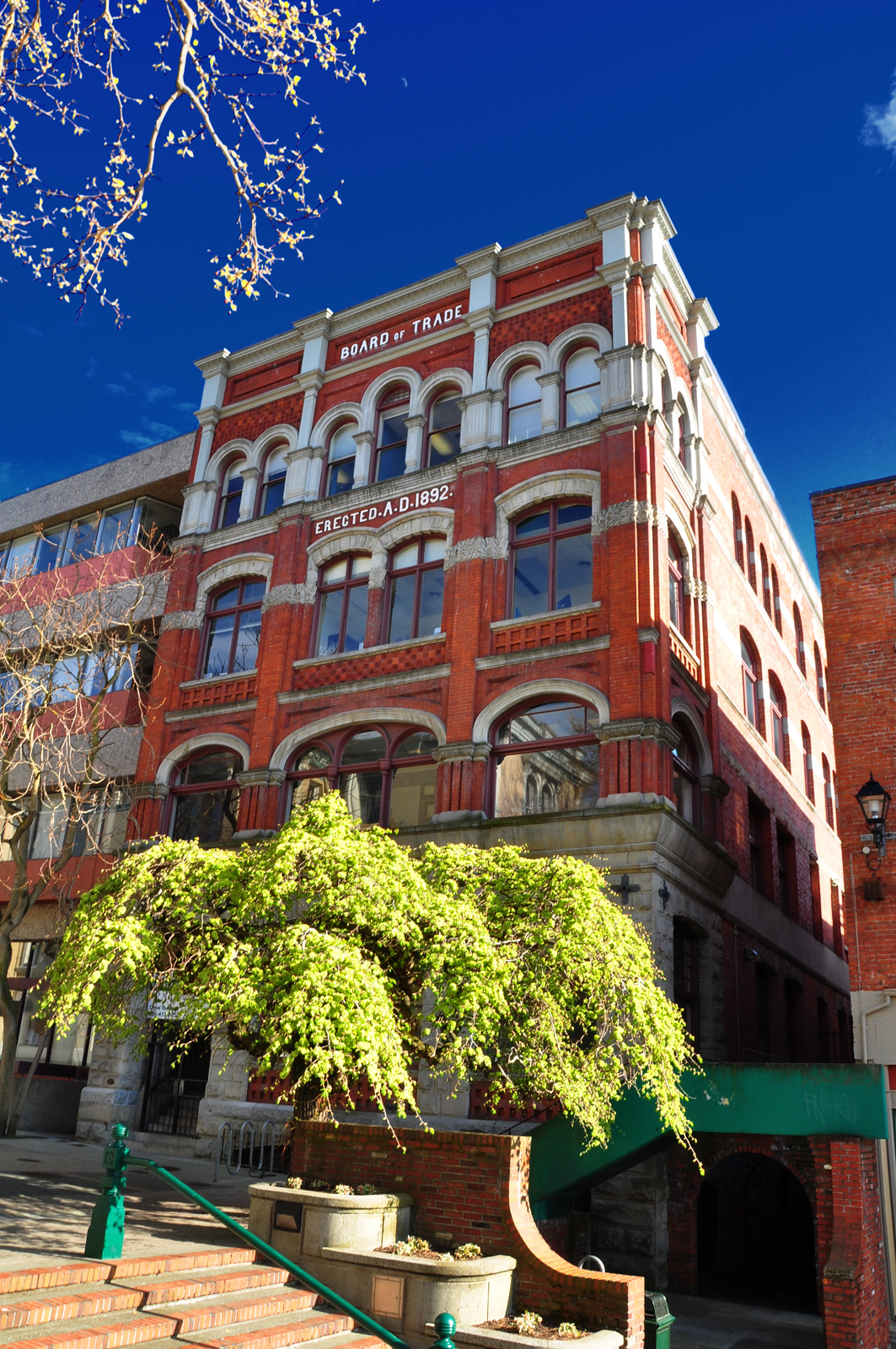 Board of Trade building, Victoria, British Columbia. Architect / Designer: A. Maxwell Muir